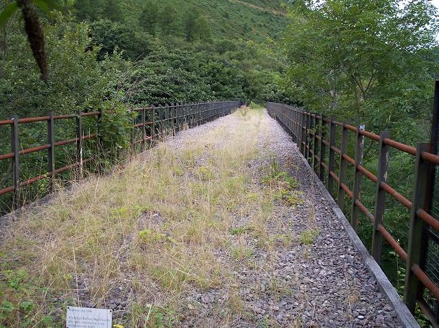 Hall's Viaduct, Crosskeys, Caerphilly. Hall's Tramroad was an 1811 plateway that ran from Risca to the Upper Sirhowy Valley. It was leased by the GWR in 1877 and they converted it to standard gauge. It survived until 1991 to serve Oakdale Colliery, by which time it was one of the oldest lines to remain in use. The 516ft long Hall's Viaduct spanning the A467, Ebbw River and Ebbw Vale line (soon to be reopened for passengers trains) at Crosskeys is a listed grade ll structure. Photo taken on the bridge deck looking north west.